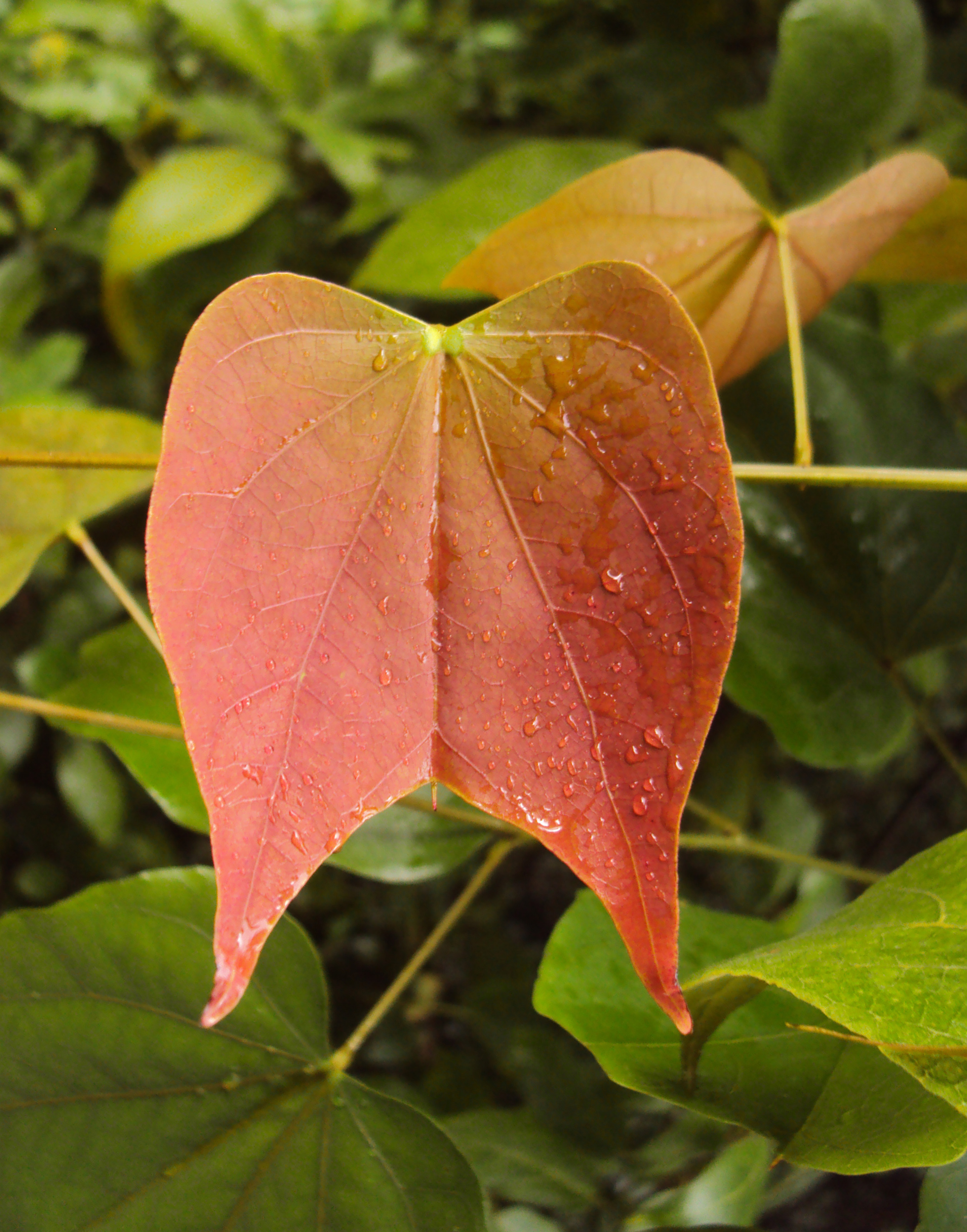 Bauhinia scandens - Snake Climber